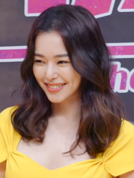 Lee Ha-nui in February 2019